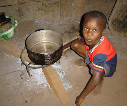 A small boy sits by his mother's traditional woodfuel stove. Nigeria.